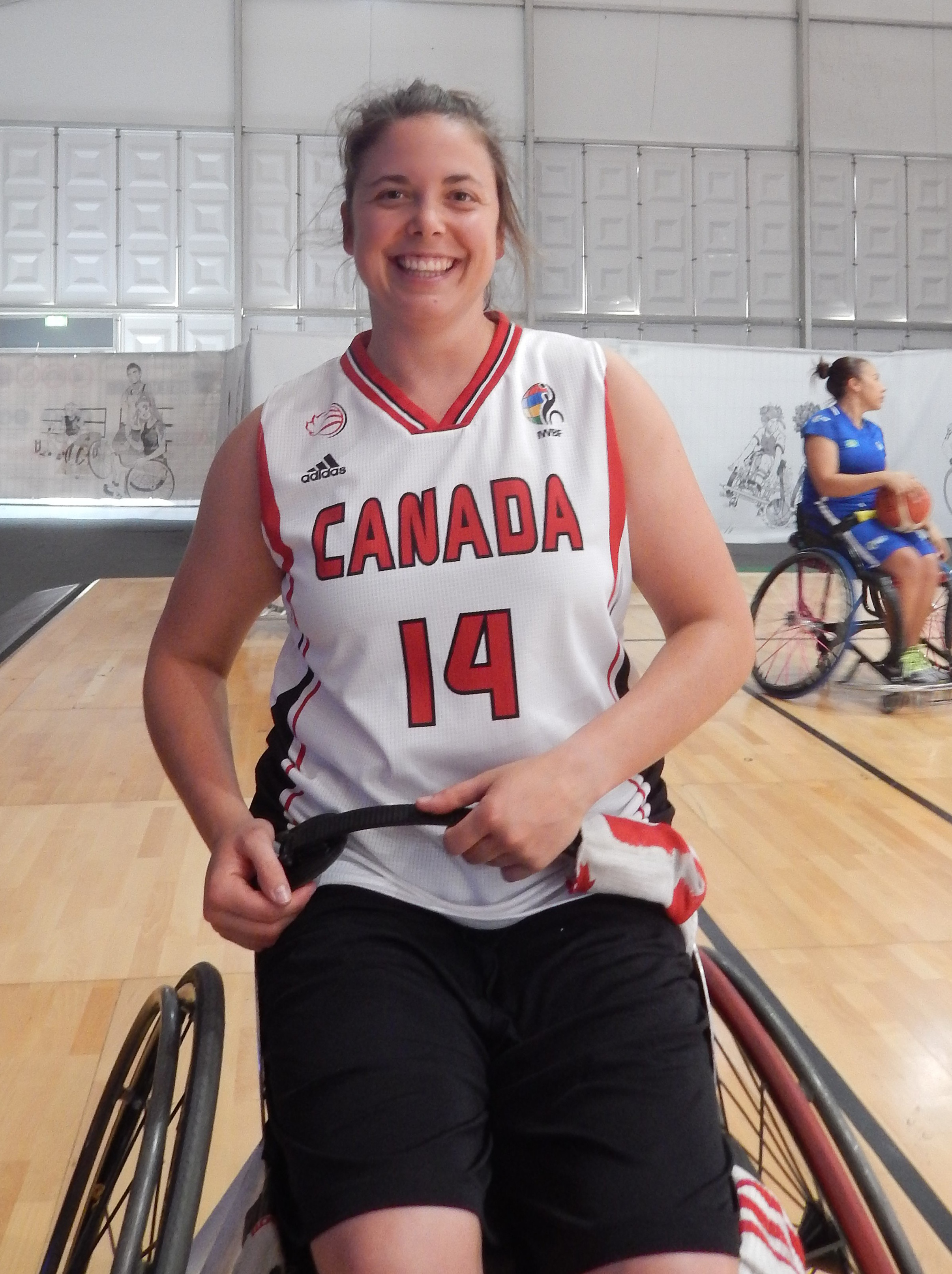 Canada No. 14 - Erica Gavel at the 2018 World Wheelchair Basketball Championships in Hamburg, Germany